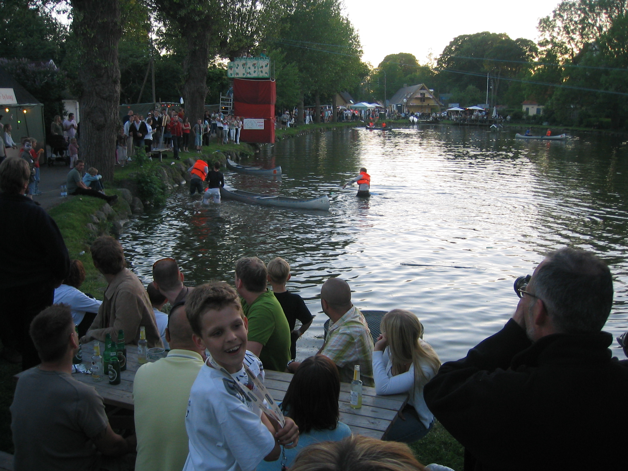 Local village party in Sengeløse, Denmark, June 10th 2006.